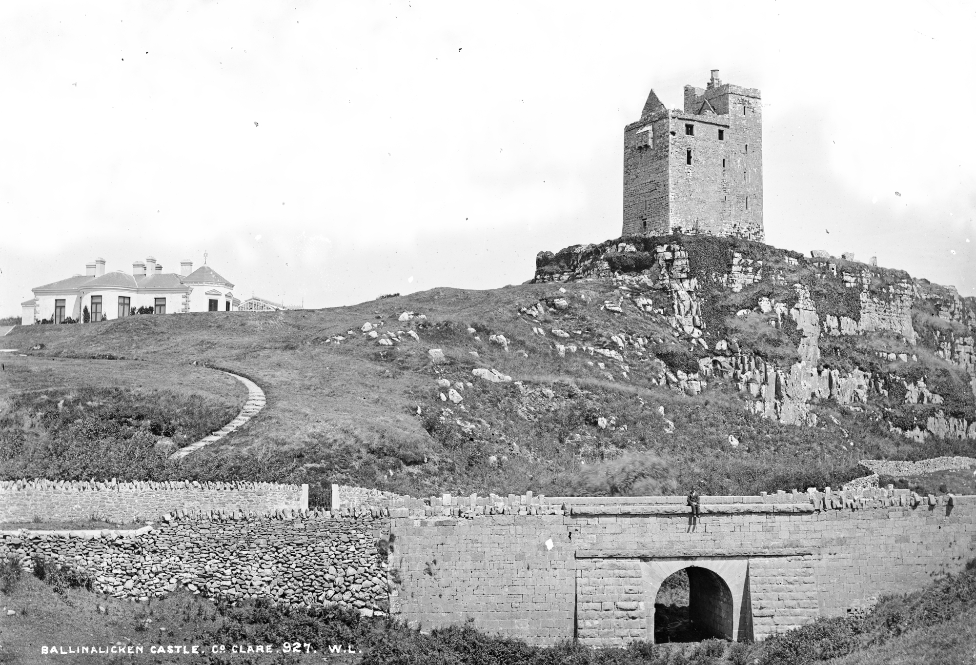 Thought we'd have a castle today for those of you as likes them! Really love that if you let your eye drift down from the castle, you find that gentleman quietly sitting on the parapet of the bridge almost perfectly above the centre of the arch... Date: Circa 1880?? NLI Ref.: L_CAB_00927